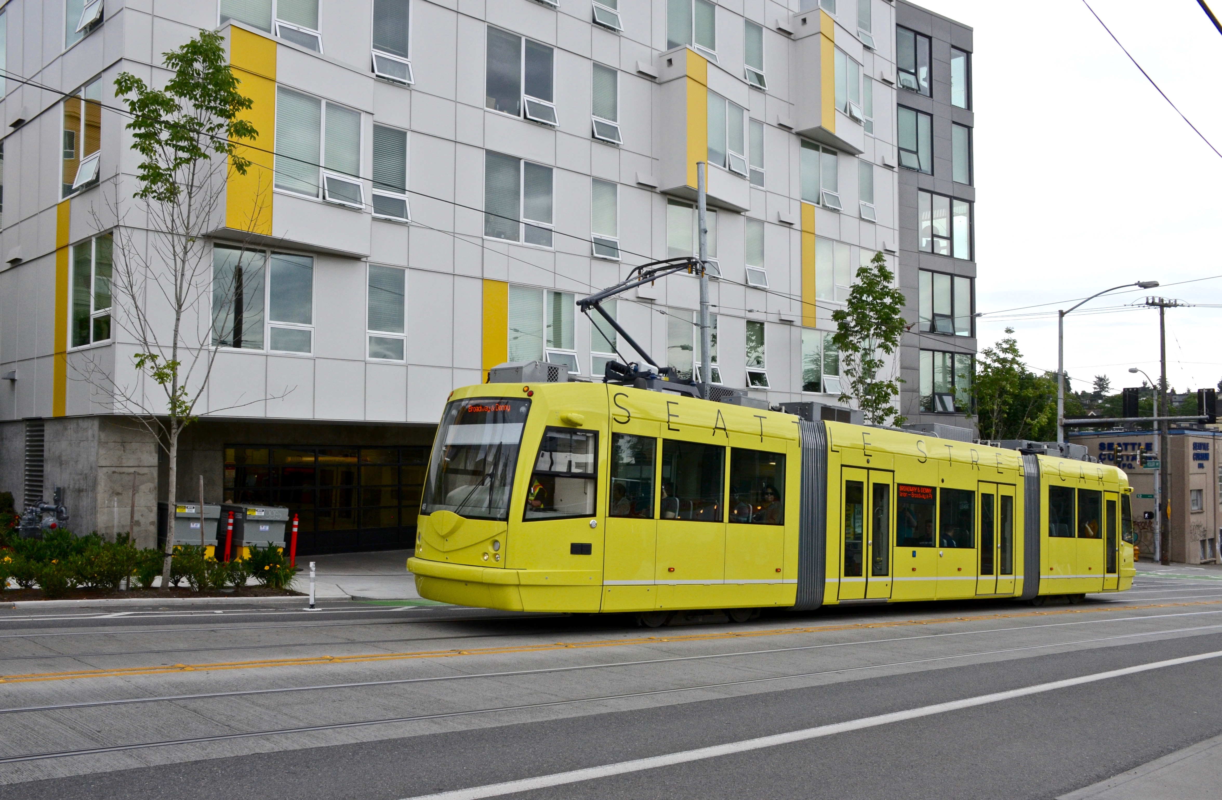 Seattle Streetcar system car 403 (an Inekon 121 Trio) westbound on Yesler Way between 12th Avenue and Boren Avenue, in service on the First Hill Streetcar line. It is passing a new apartment building (constructed in 2014–2015).